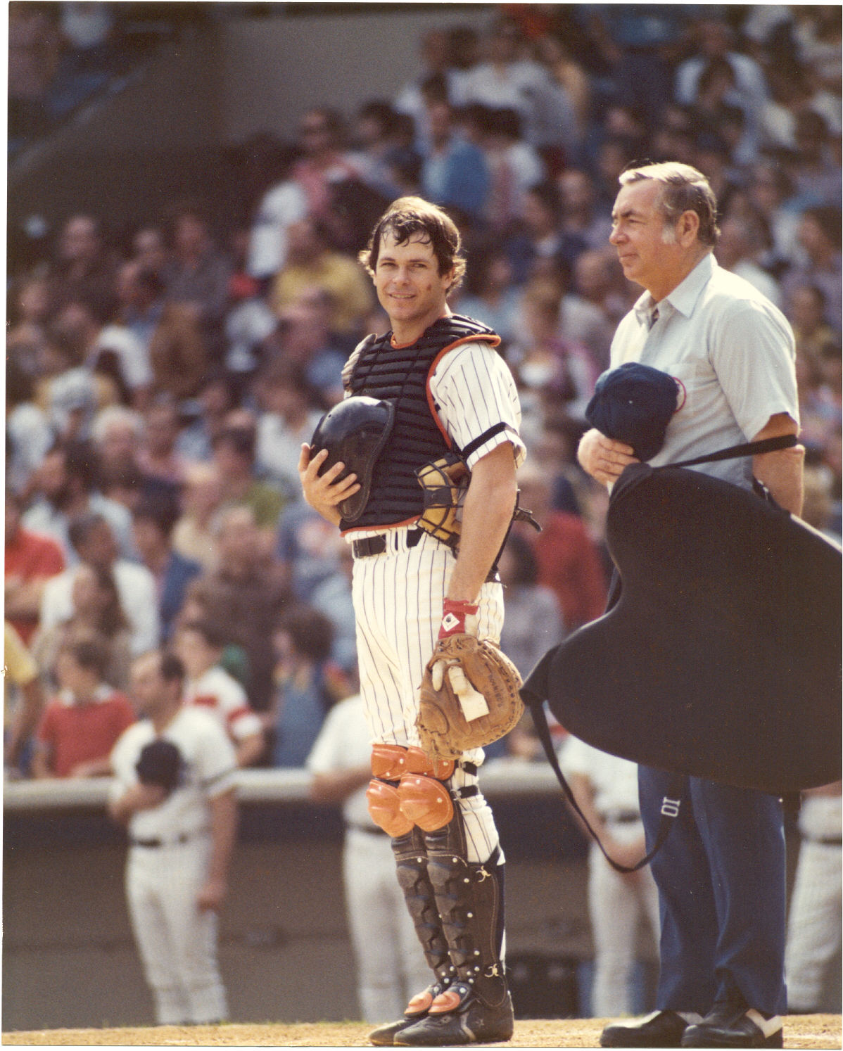 New York Yankee catcher Bruce Robinson during national anthem at Yankee Stadium prior to 1979 game.